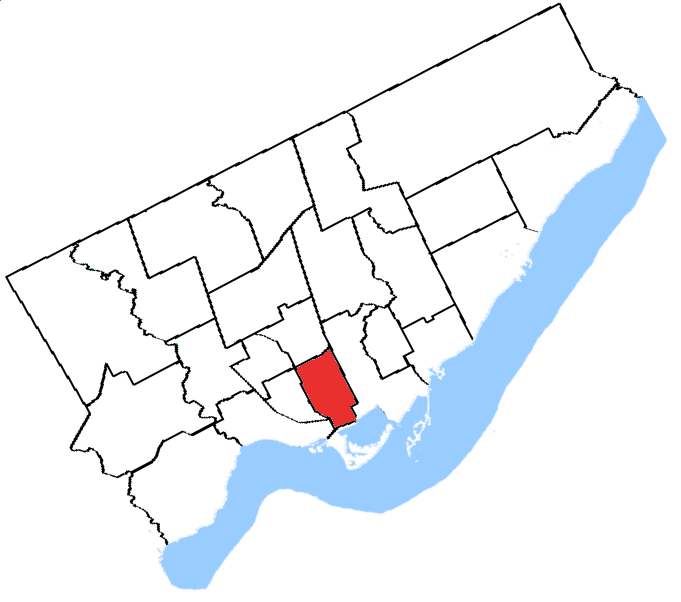 Map of the Spadina electoral district showing its borders from 1976 to 1987. Created by SimonP.